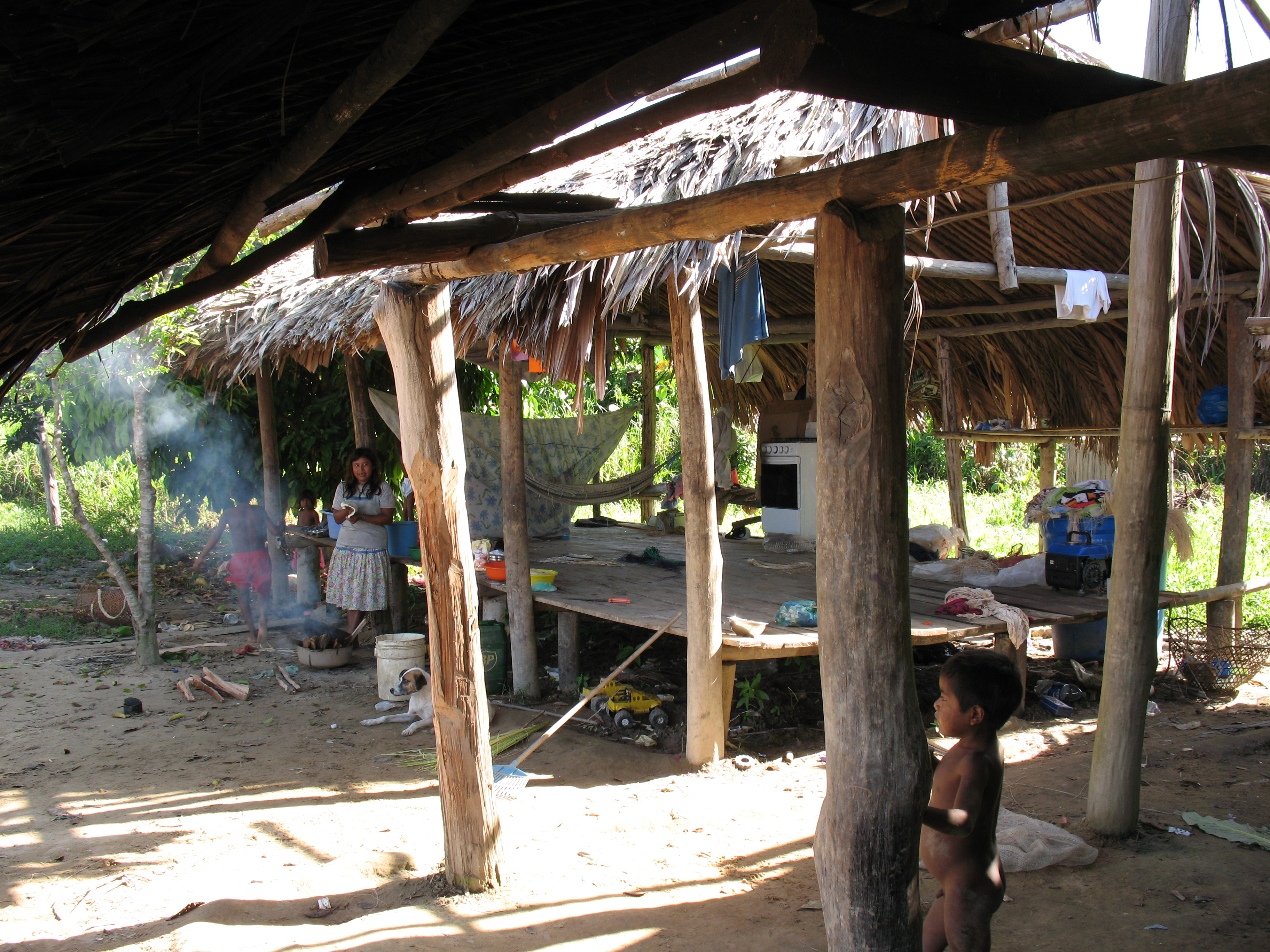 Warao village in Venezuela's Orinoco Delta region.